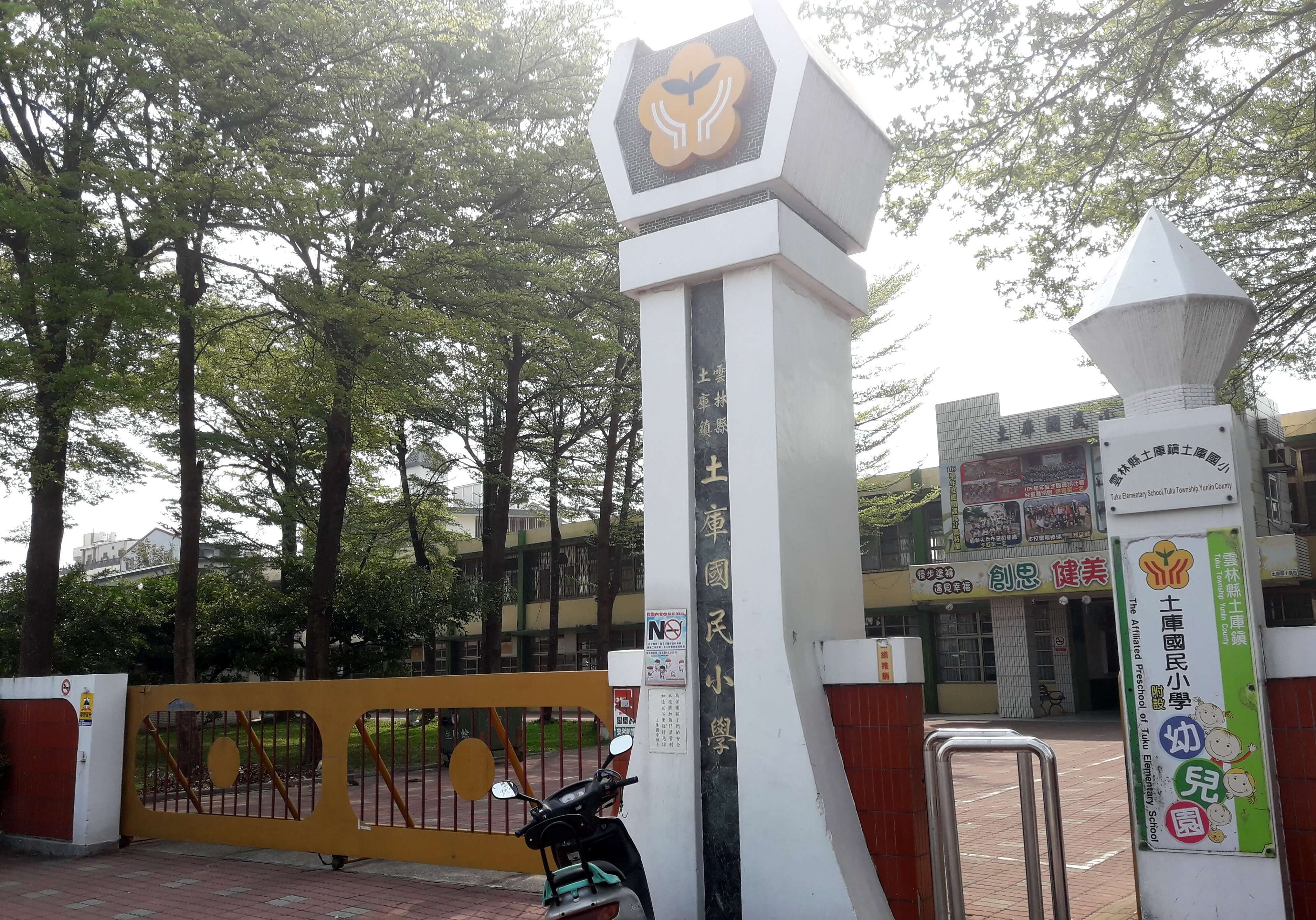 The Tuku Elementary School in Tuku Township, Yunlin County, Taiwan.